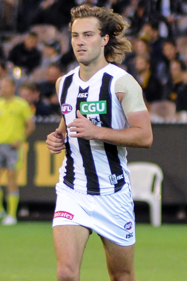 Tim Broomhead during the AFL round two match between Richmond and Collingwood on 30 March 2017 at the Melbourne Cricket Ground in Melbourne, Victoria.